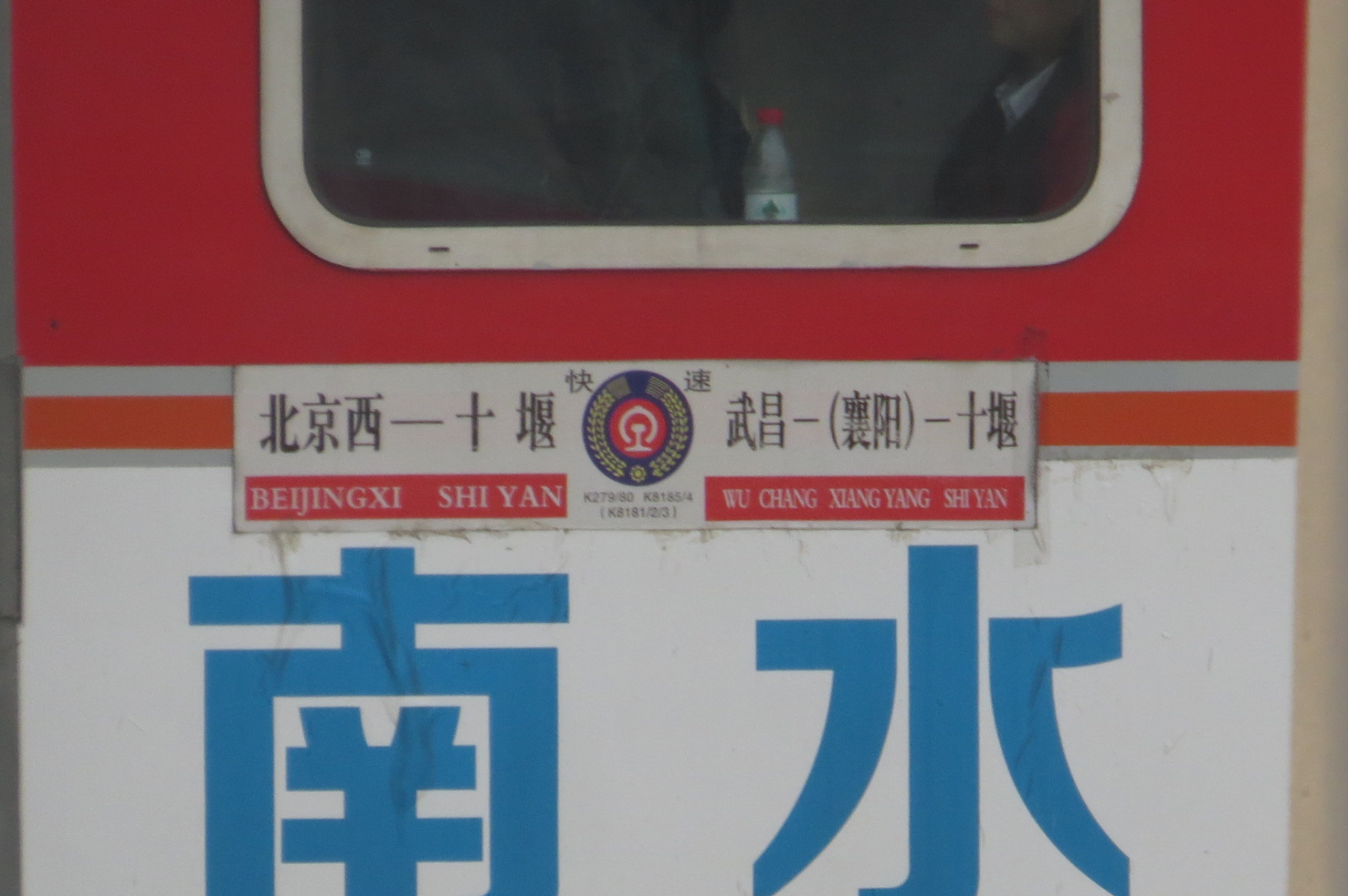 Updated version.